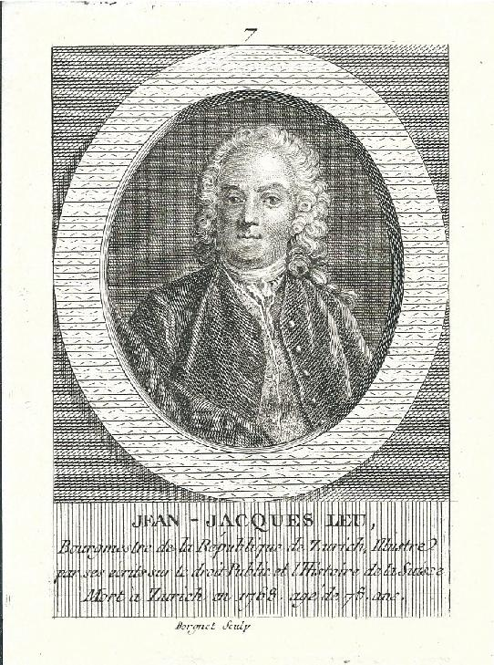 Jean-Jacques Leu Bourgmestre de la République de Zurich Illustre par ses écrits sur le droit Public et l'Histoire de la Suisse Mort à Zurich en 1768 âgé de 78 ans Par Borgnet Sculpteur